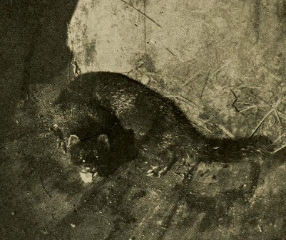 Louisiana mink in a threatening posture